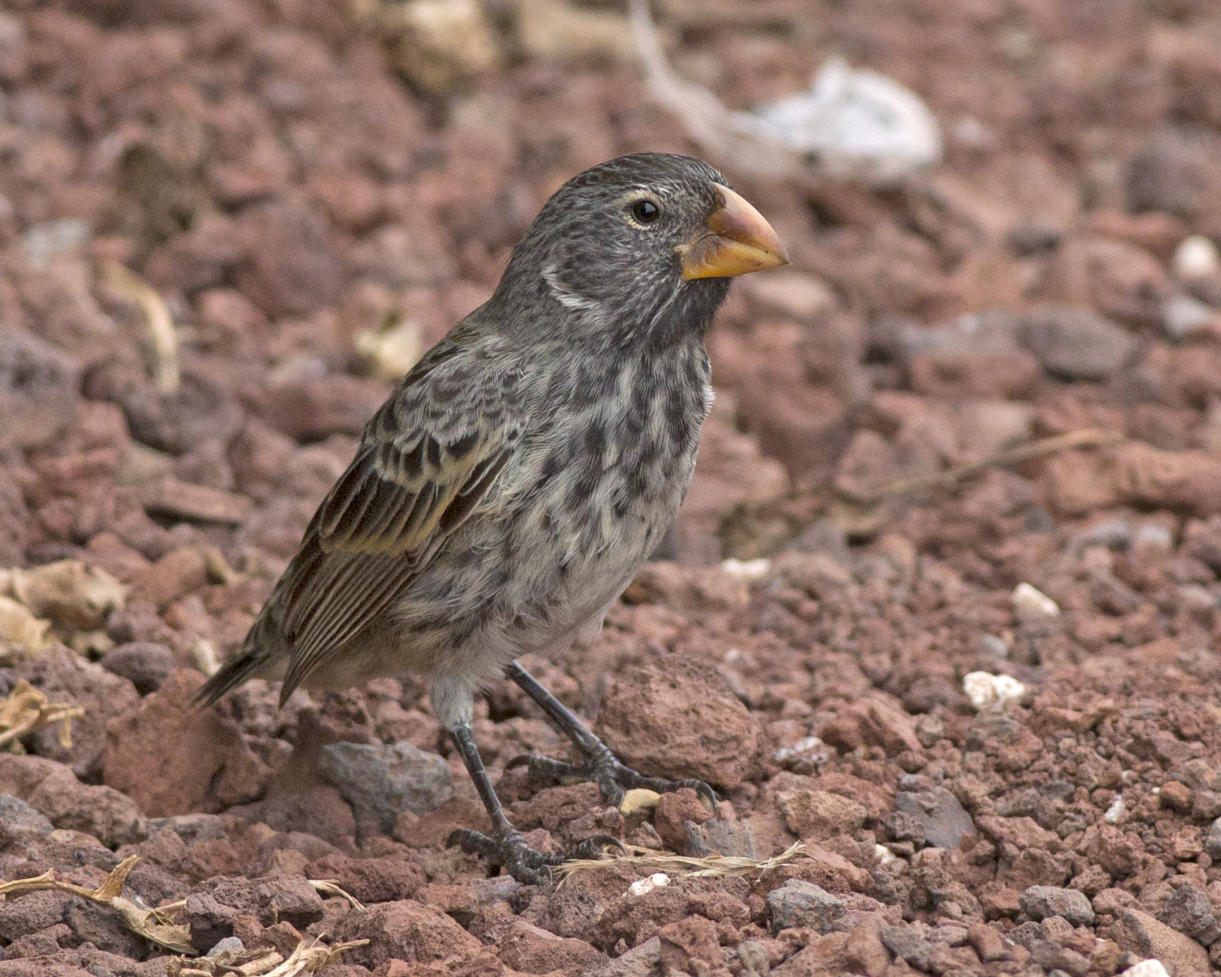 Large Ground Finch (Geospiza magnirostris), Charles Darwin Research Station, Santa Cruz, Galápagos Islands, Ecuador